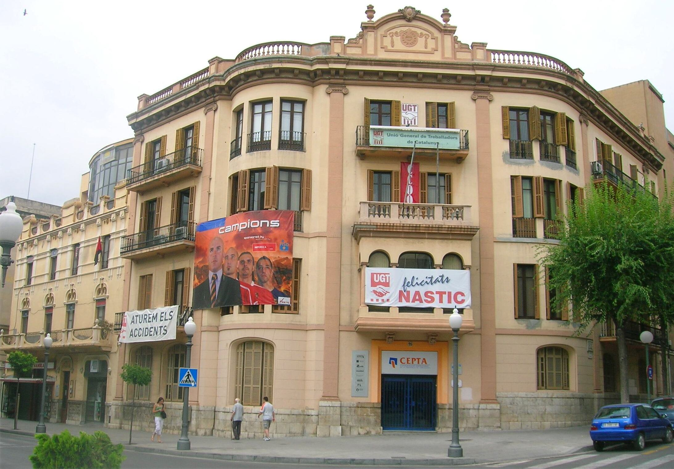 Sedes sindicales de Comisiones Obreras, Unión General de Trabajadores y Confederación General del Trabajo en la Rambla Nova de Tarragona.